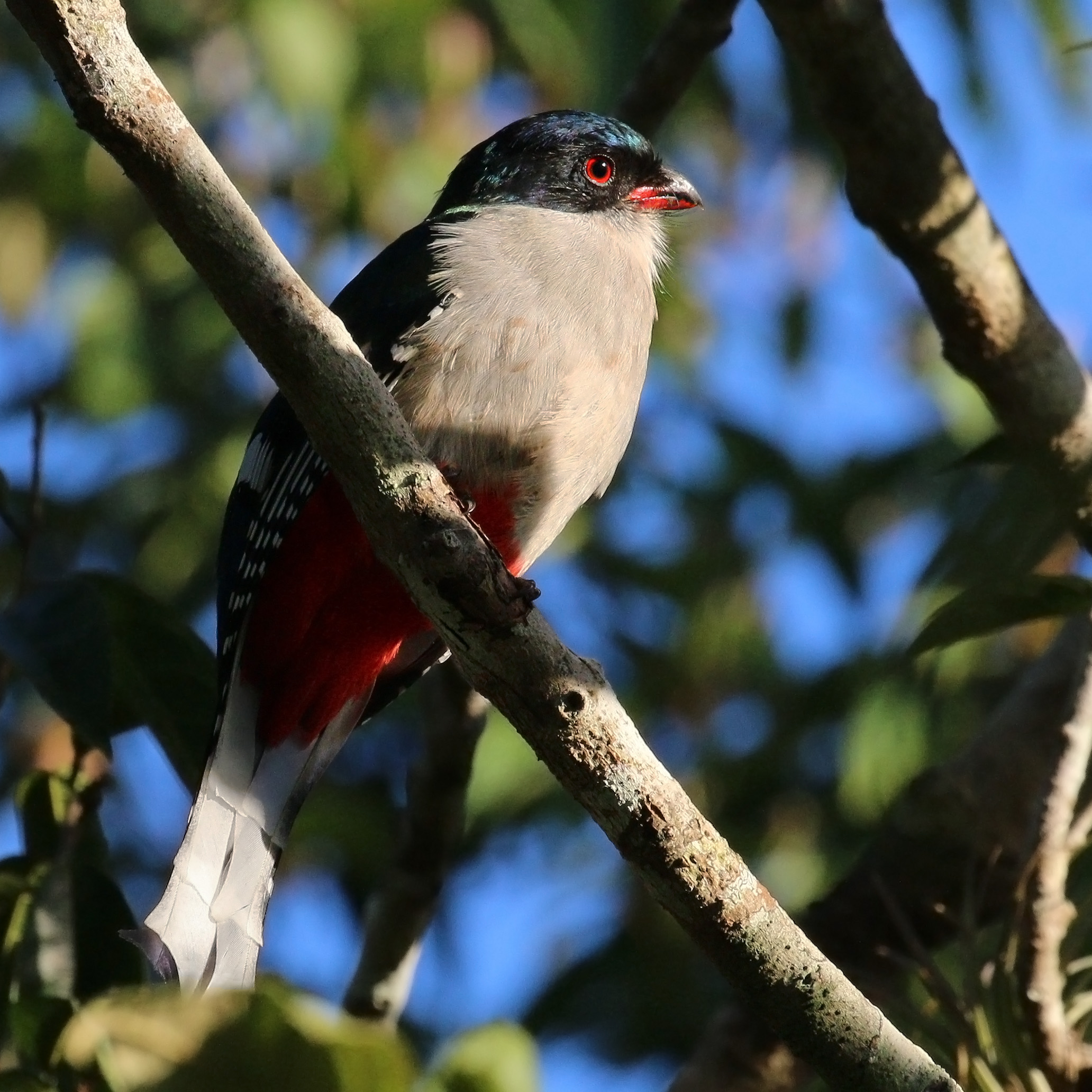 Cuban trogon (Priotelus temnurus), Maravillas de Vinales, Cuba